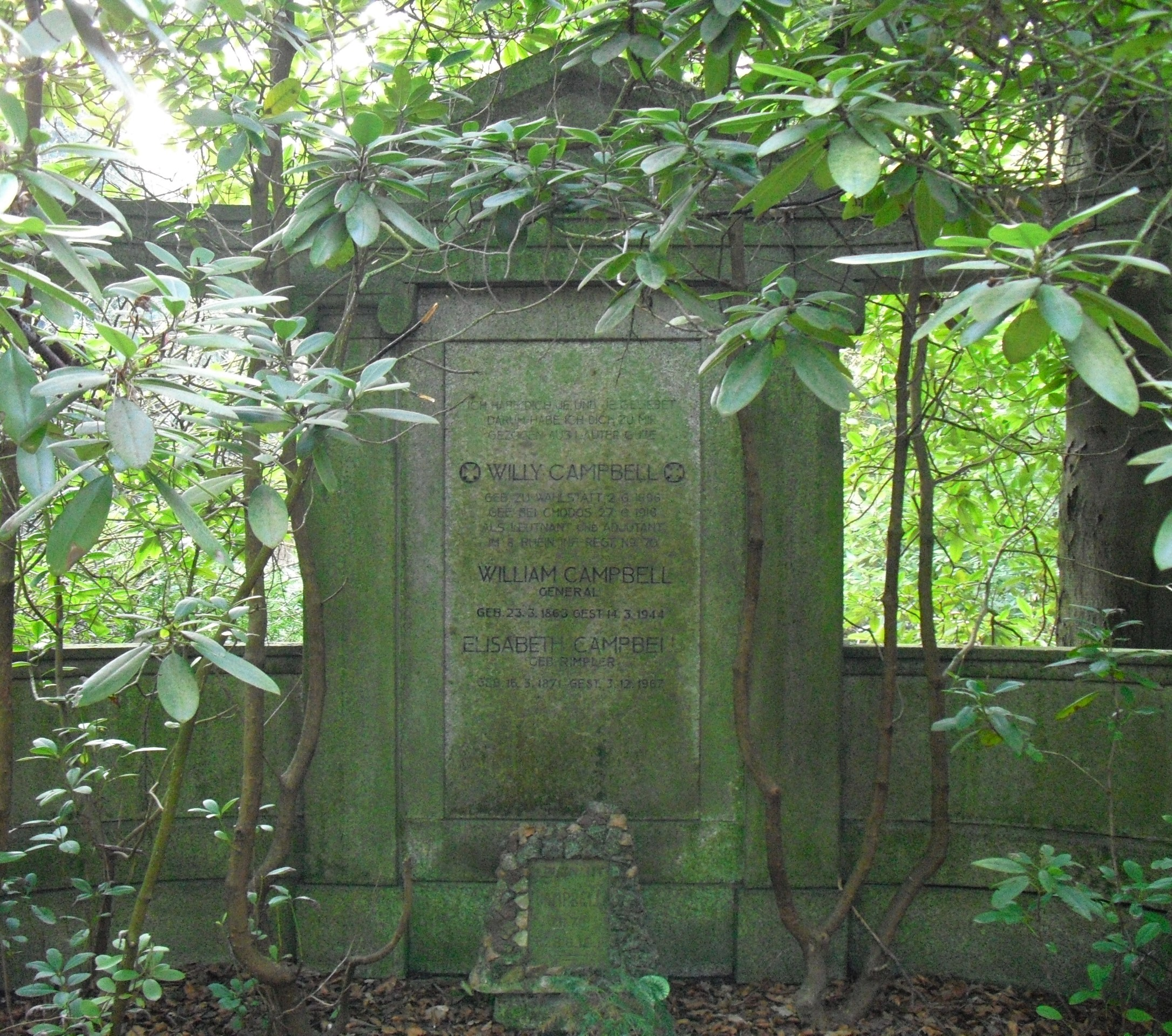 Grave of Prussian major general William Campbell of Breadalbane in Parkfriedhof Lichterfelde in Berlin, Germany.